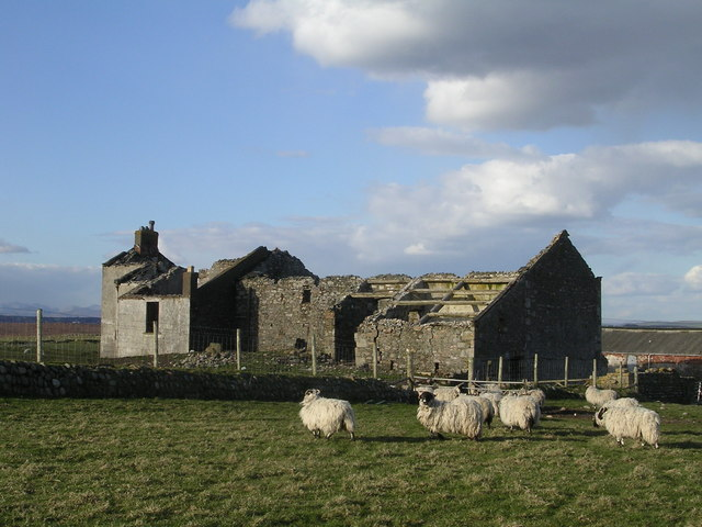 Ruined Farmhouse on South Walney Island.